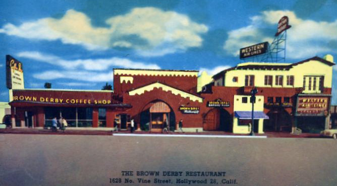 Postcard photo of the Brown Derby restaurant (built in 1929 in part by Carl Jules Weyl, architect of the Warner Brothers, studio and demolished in 1994 {1} ) at Hollywood and Vine. This postcard was produced prior to 1978 and has no copyright markings. The image has been cropped. This branch of the restaurant began in 1929. A fire destroyed most of the building in 1987.